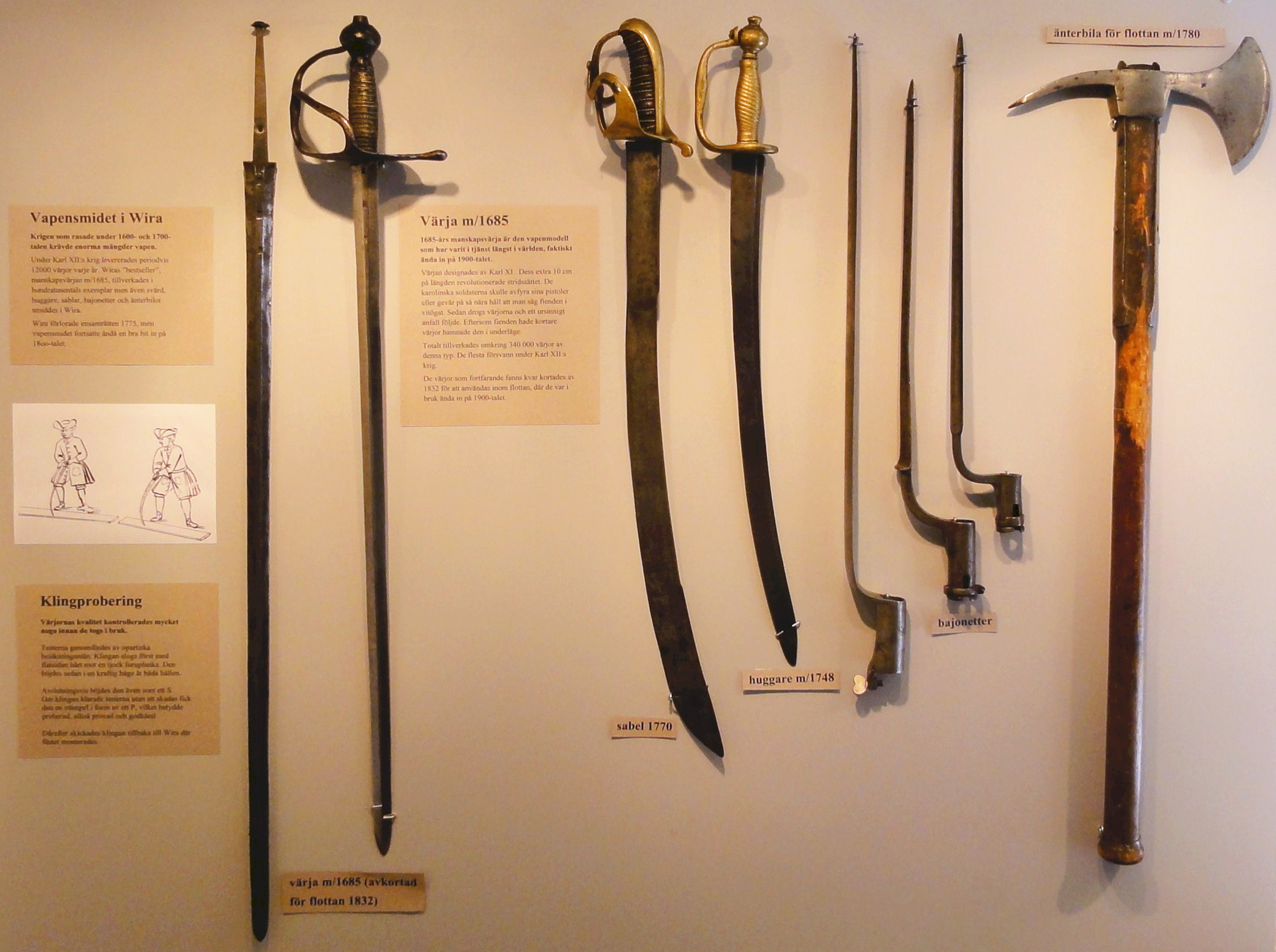 Weapons manufactured at Vira bruk